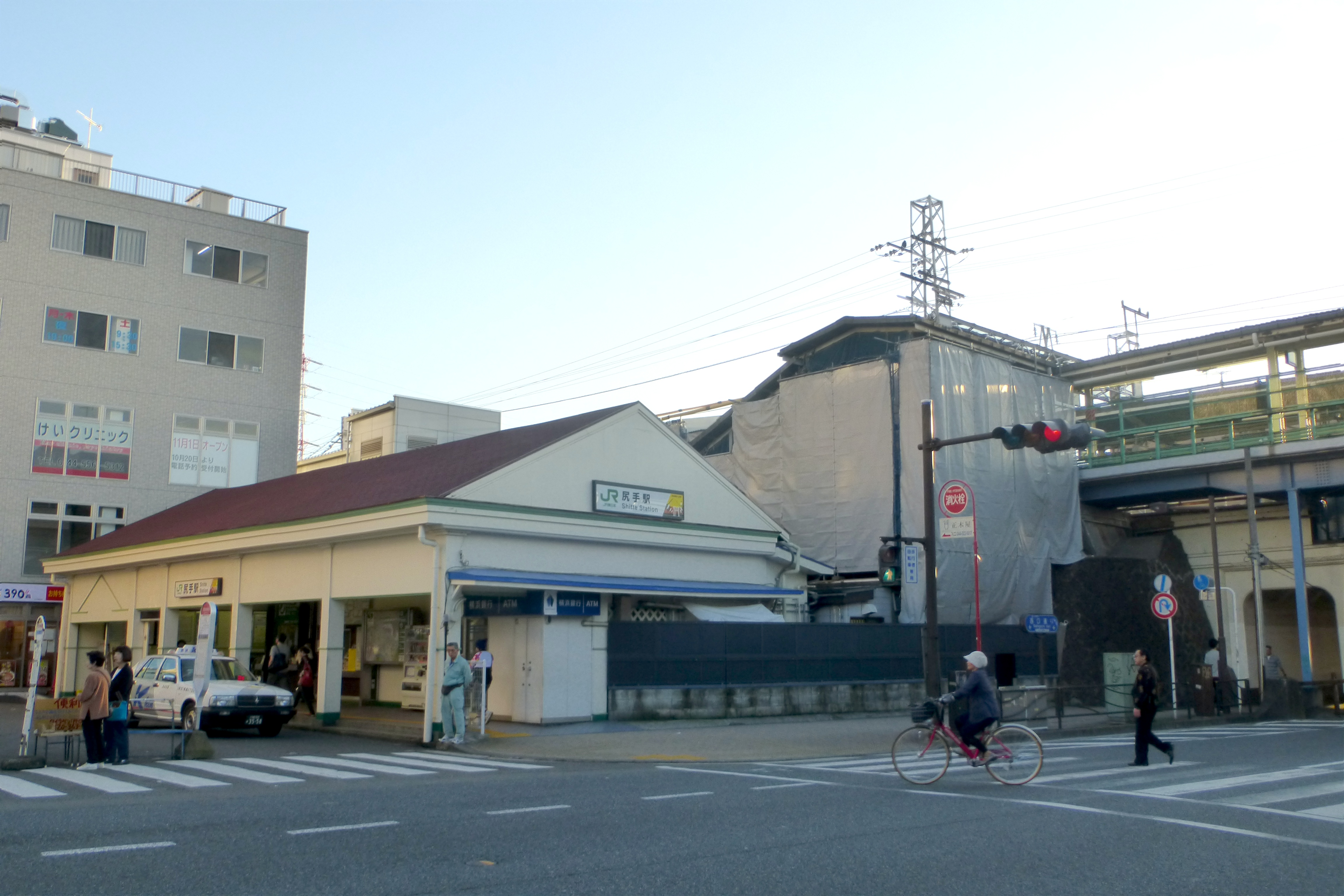 Shitte Station